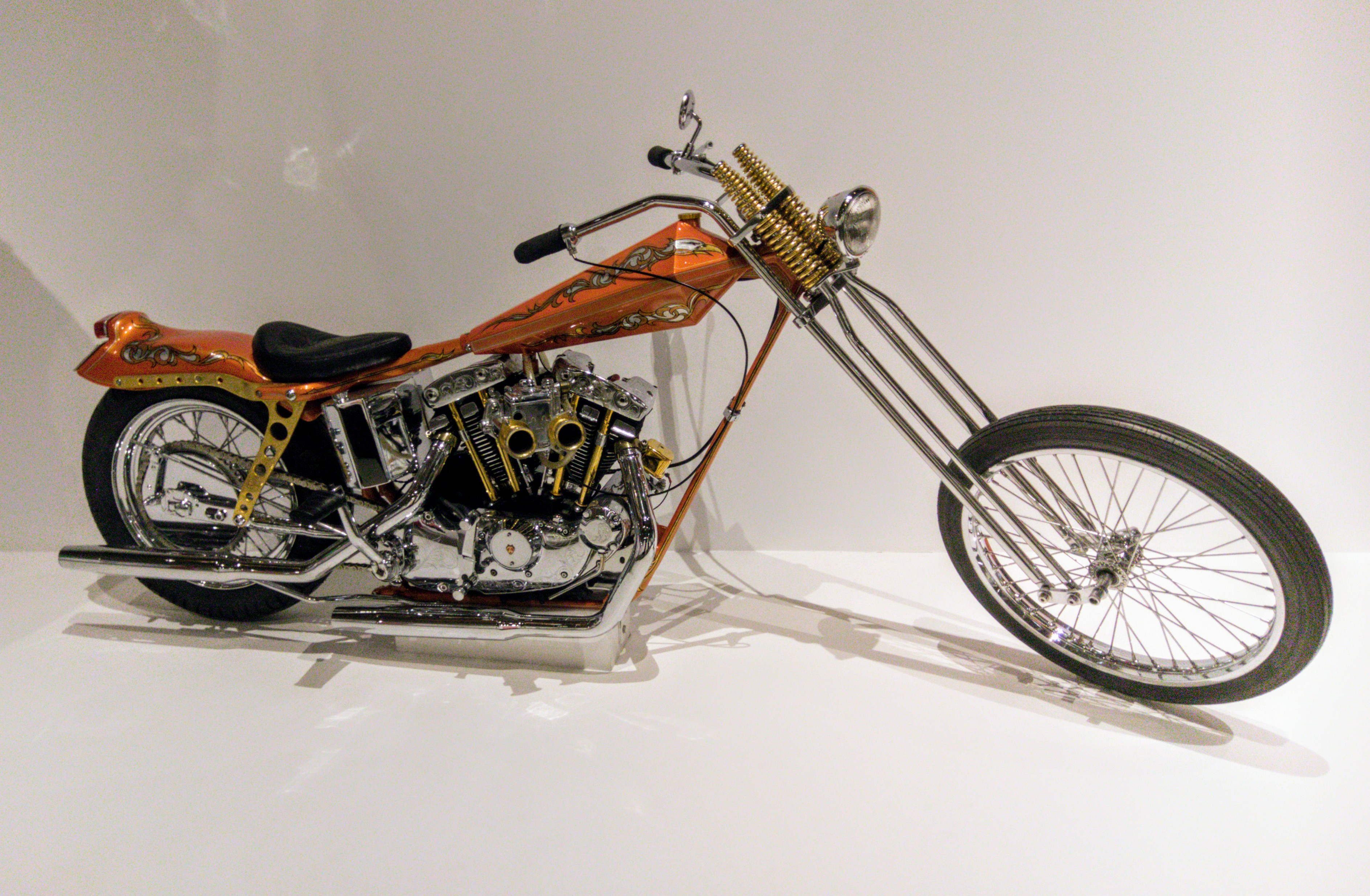 A custom motorcycle built by Arlen Ness in 1984, on display at the Oakland Museum of California. Photo by Jim Heaphy.